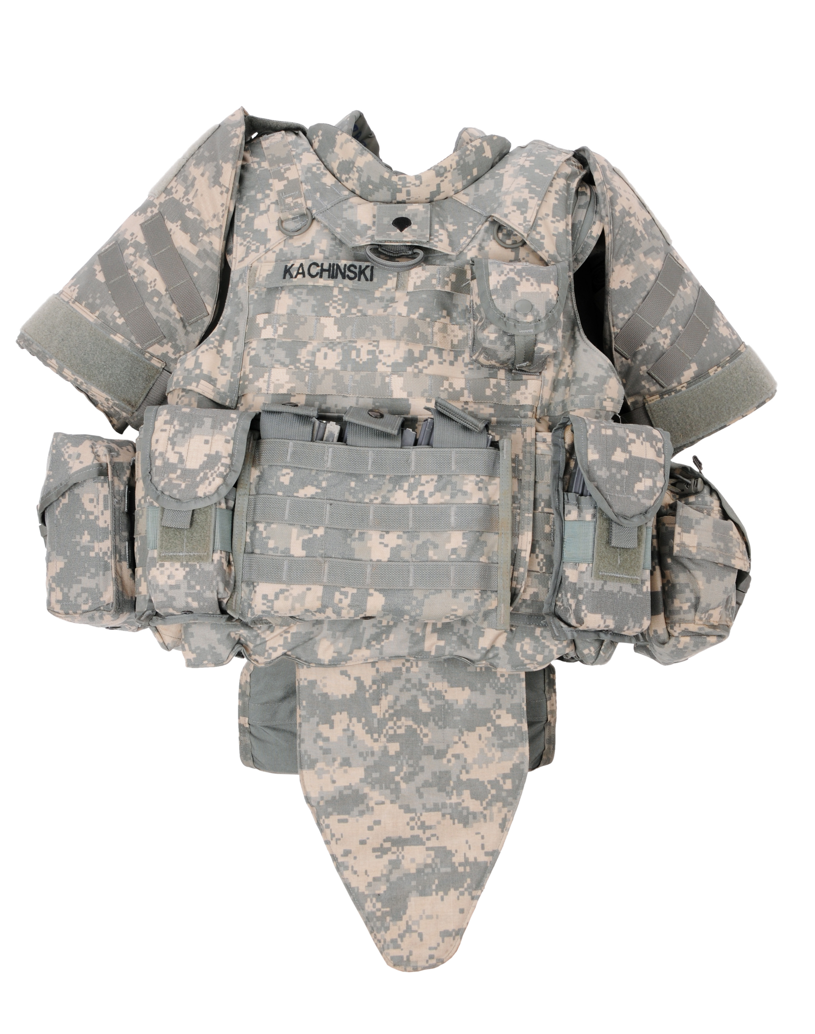 U.S. Army IOTV vest with deltoid protectors.